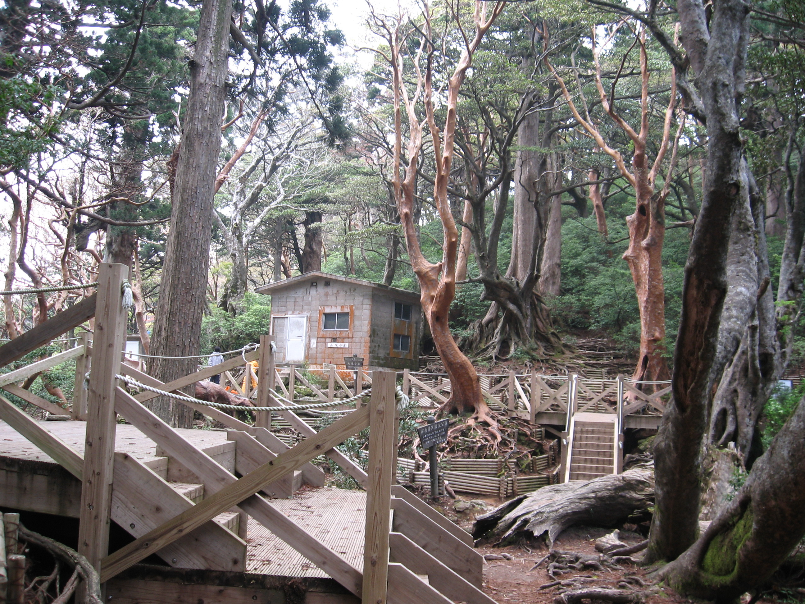 Takatsuka-goya ("Takatsuka mountain hut") on the trail to Mount Miyanoura in Yaku Island